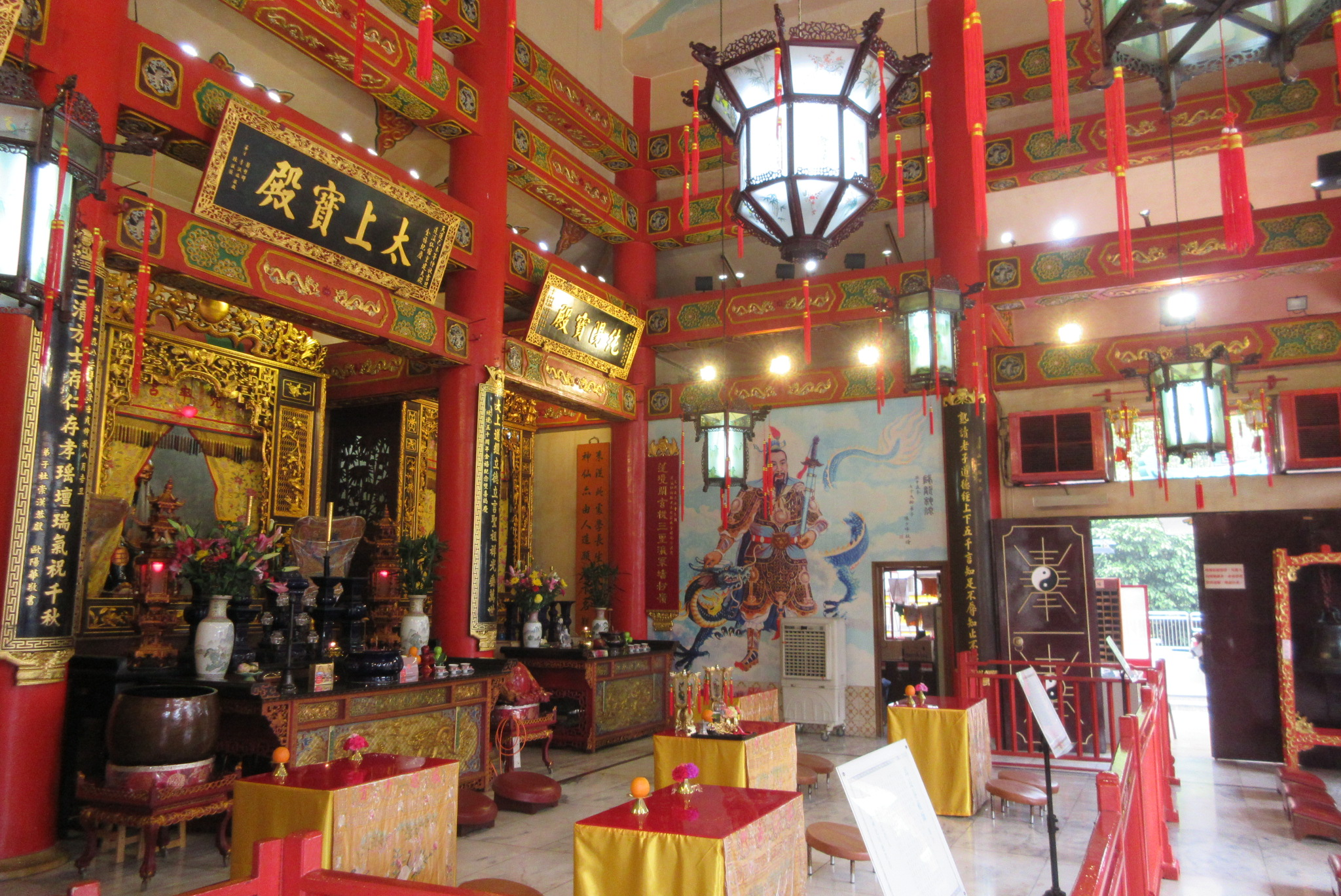 HK 粉嶺 Fanling 蓬瀛仙館 Fung Ying Sen Koon temple grand main hall interior in March 2017